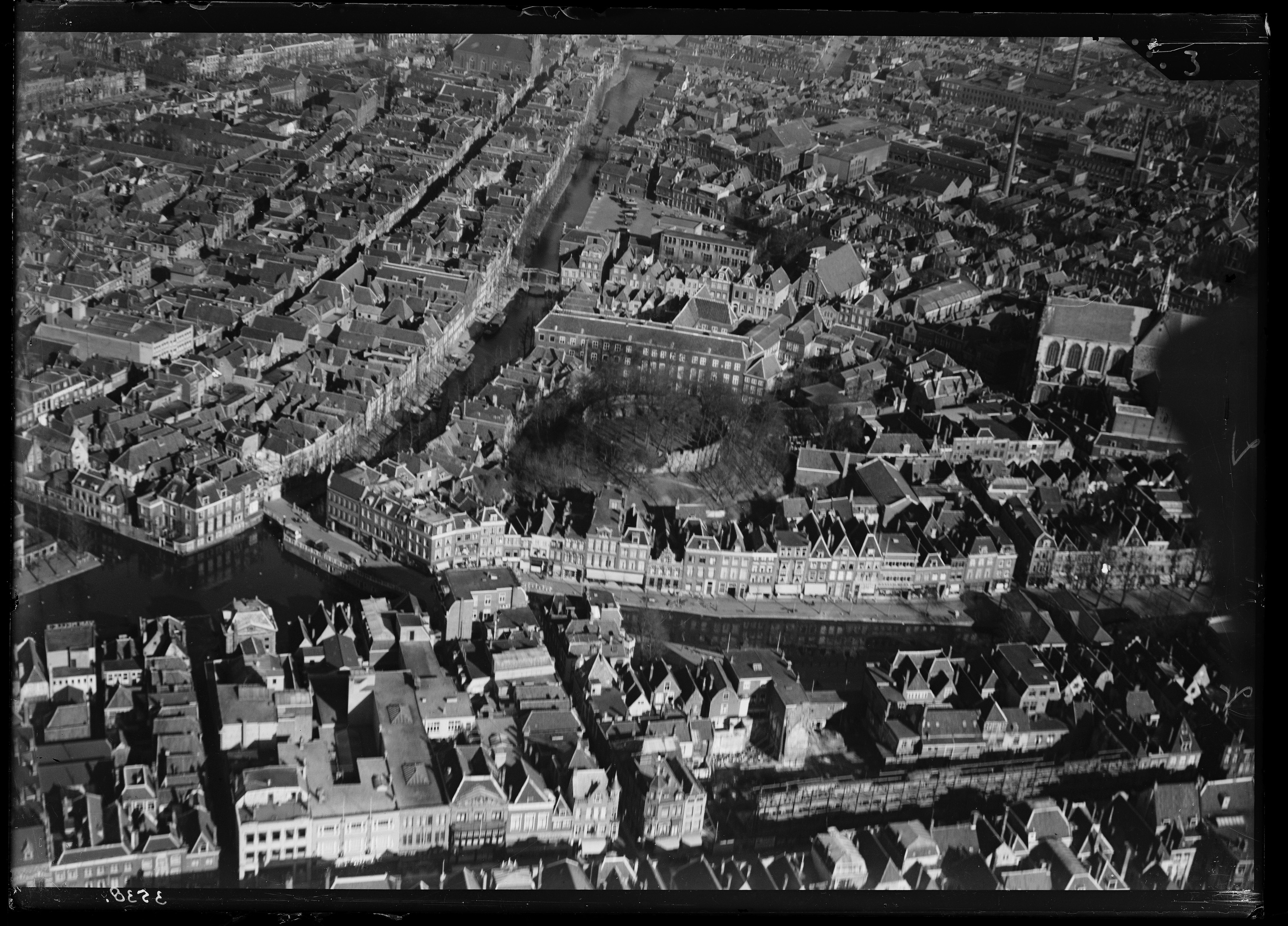 Aerial photograph of Leiden, The Netherlands